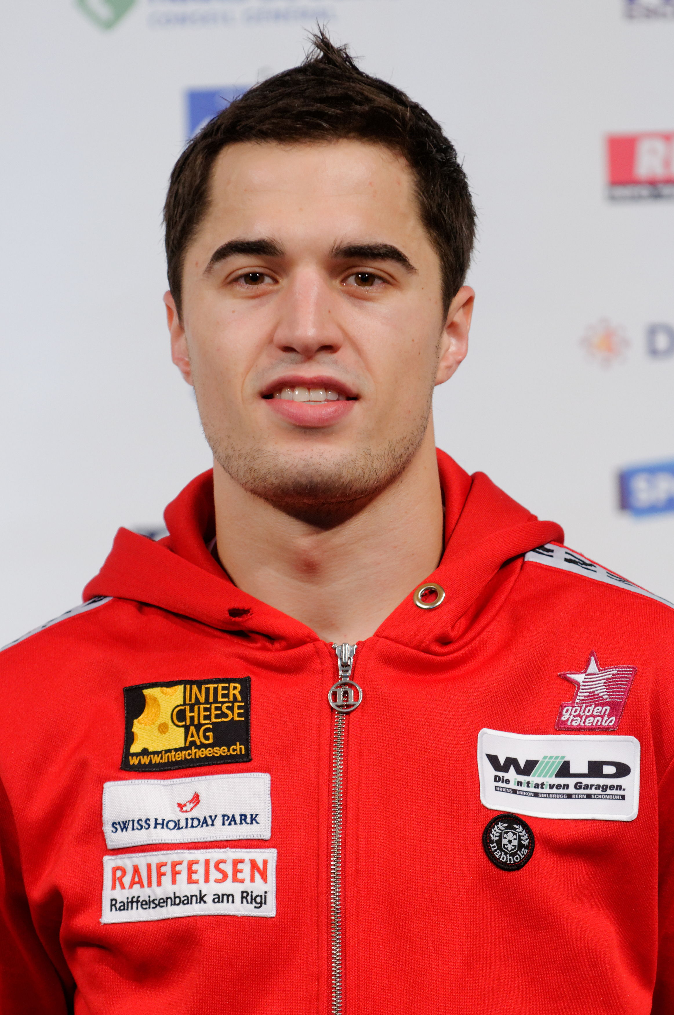 Max Heinzer on the podium of the Masters à l'épée 2012.